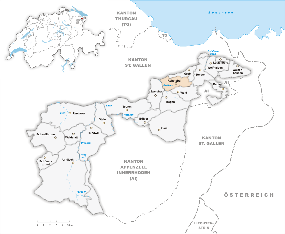 Municipality of Rehetobel